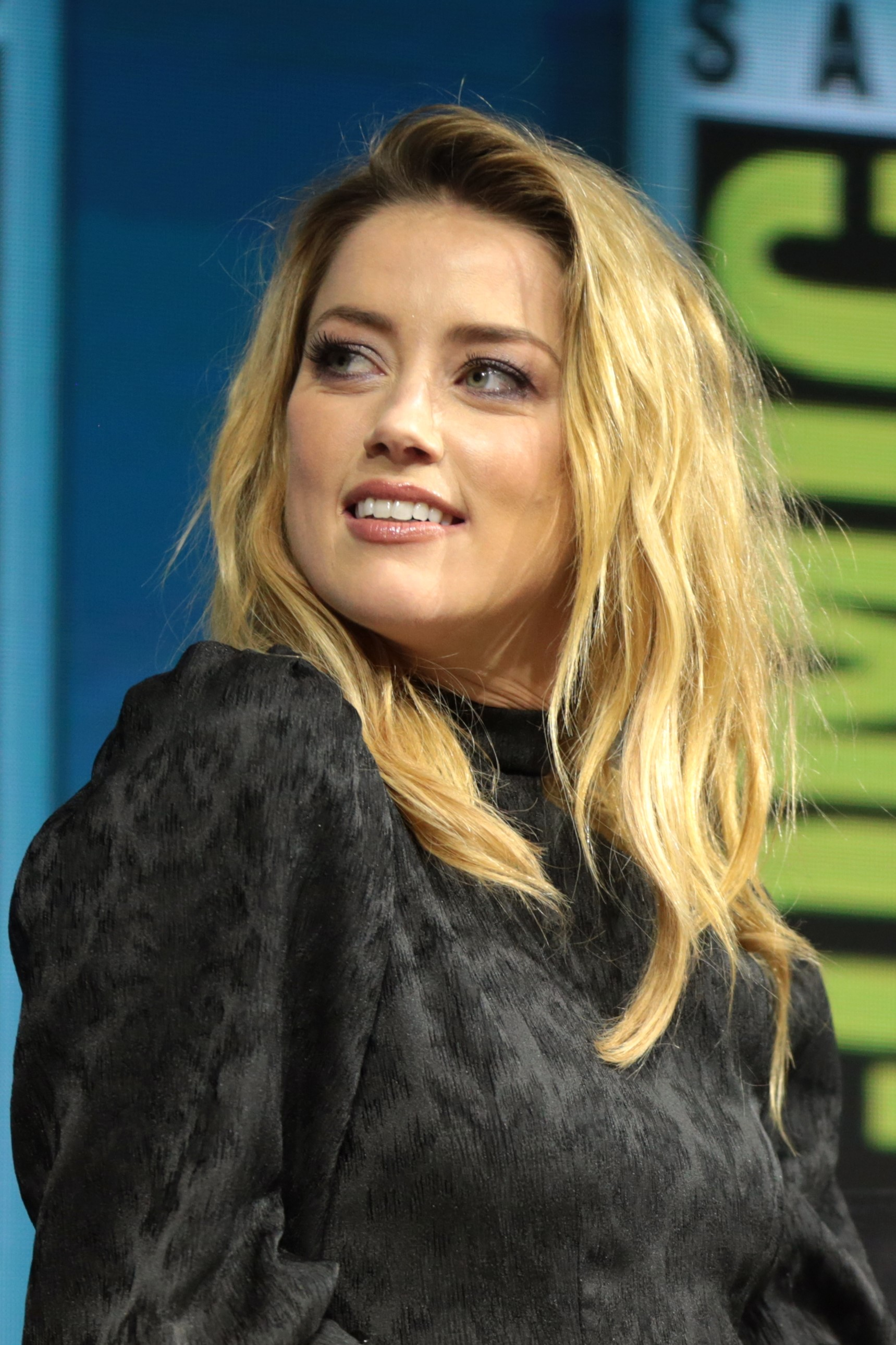 Amber Heard speaking at the 2018 San Diego Comic Con International, for "Aquaman", at the San Diego Convention Center in San Diego, California.